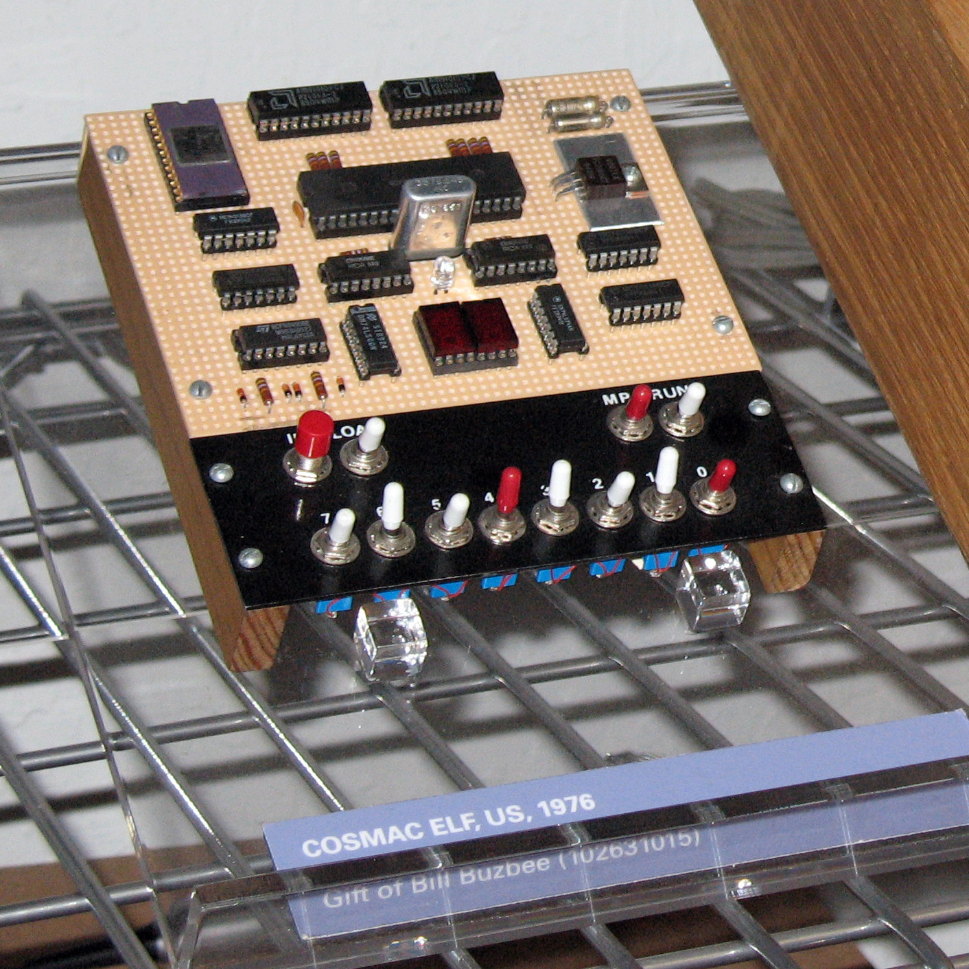 COSMAC ELF on display at the Computer History Museum in Mountain View CA. Bill Buzbee built this replica of the prototype that appeared in Popular Electronics (July 1977, page 41.) It has the Pixie graphics display chip (CDP 1861) installed in the upper left corner. The COSMAC ELF was an Experimenters Microcomputer based on the RCA 1802 CMOS microprocessor. The plans for this project were published in Popular Electronics in 1976 and 1977. Photo by Michael Holley, November 2006. Joseph Weisbecker (August 1976). "Build the COSMAC ELF (Part 1)". Popular Electronics 10 (2): 33-38. Ziff Davis. Joseph Weisbecker (September 1976). "Build the COSMAC ELF (Part 2)". Popular Electronics 10 (3): 37-40. Ziff Davis. Joseph Weisbecker (March 1977). "Build the COSMAC ELF (Part 3)". Popular Electronics 11 (3): 63-67. Ziff Davis. Joseph Weisbecker (July 1977). "Build the COSMAC ELF (Part 4 PIXIE Graphics Display)". Popular Electronics 12 (1): 41-46. Ziff Davis.